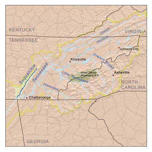 Map of the Sequatchie River watershed.